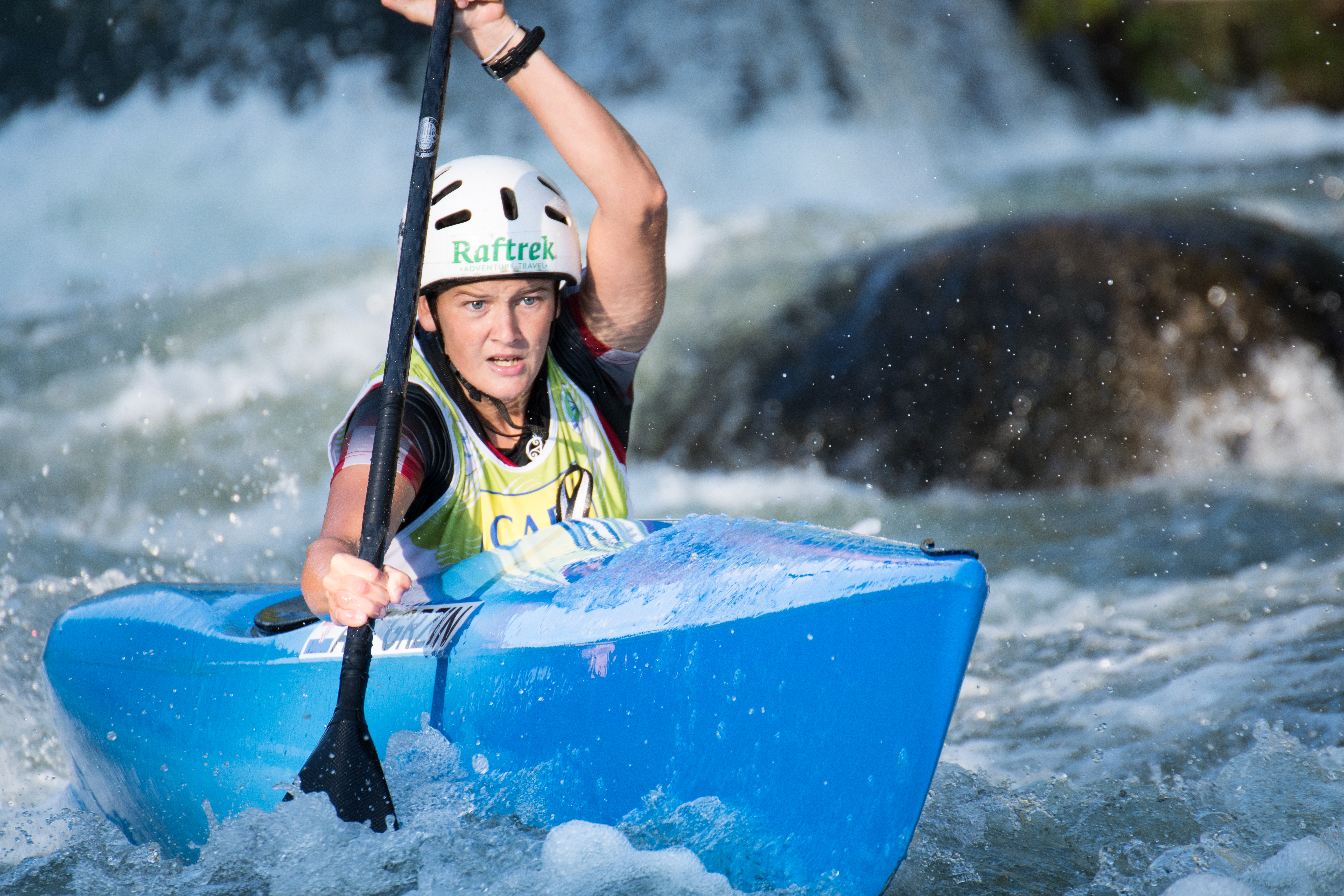 Alba Zoe Gržin during the 2019 Canoe Wildwater World Championships in La Seu d'Urgell, Spain.